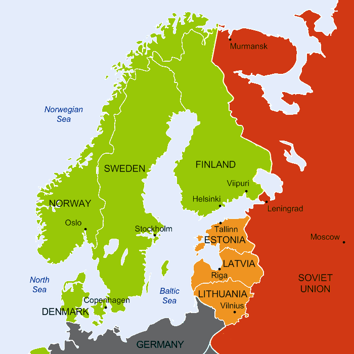 The Northern Europe in November 1939. Neutral countries Germany and annexed countries Soviet Union and annexed countries Neutral countries with military bases of the Soviet Union